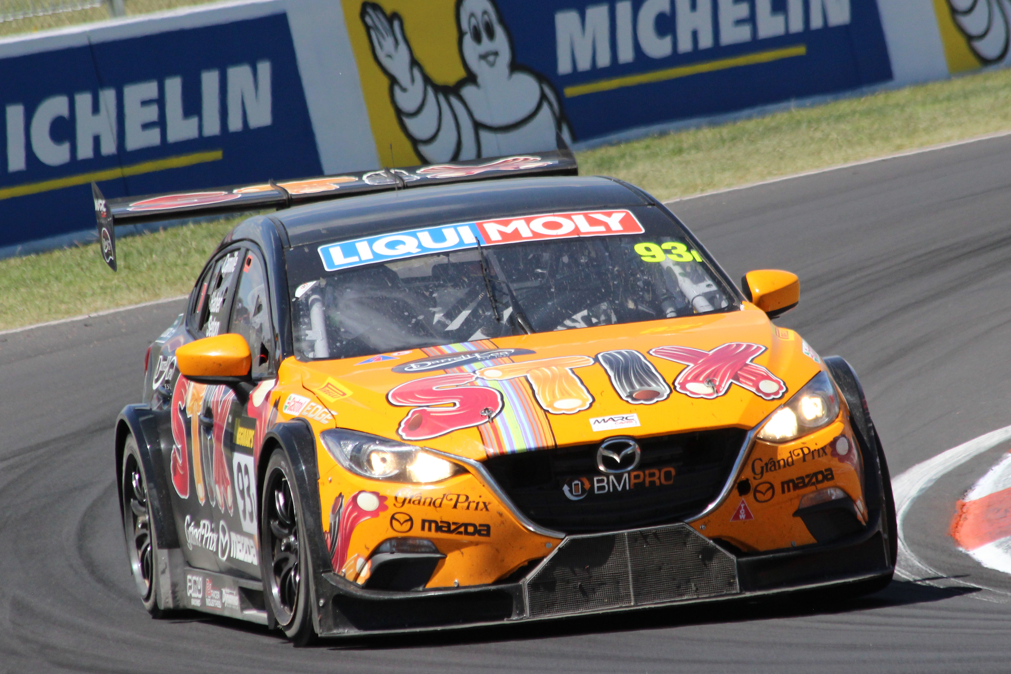 The Class I-winning MARC Mazda3 GTC of Jake Camilleri, Morgan Haber and Aaron Seton at the 2016 Liqui Moly Bathurst 12 Hour.